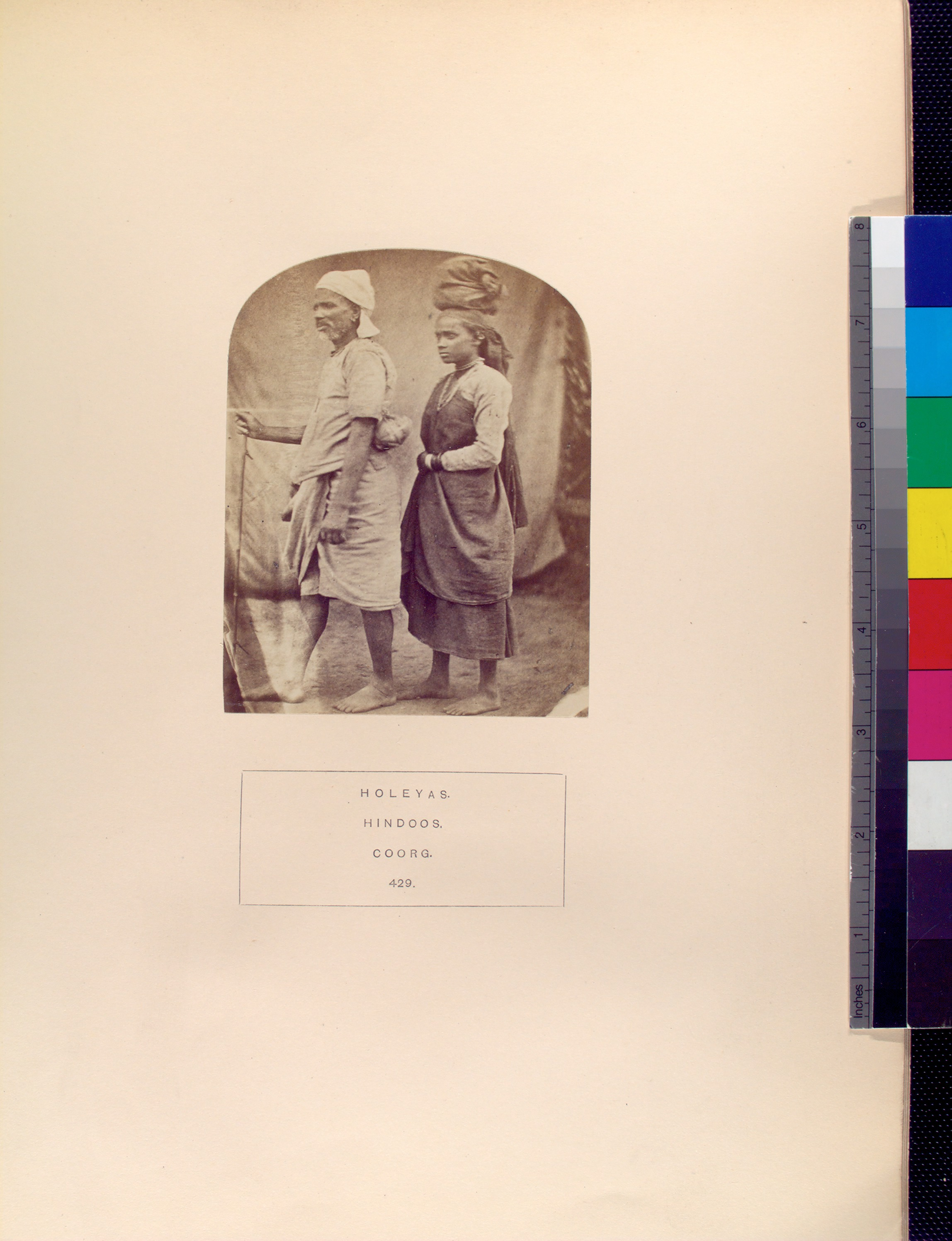 Caption box printed on mount measures 36 x 79 mm.